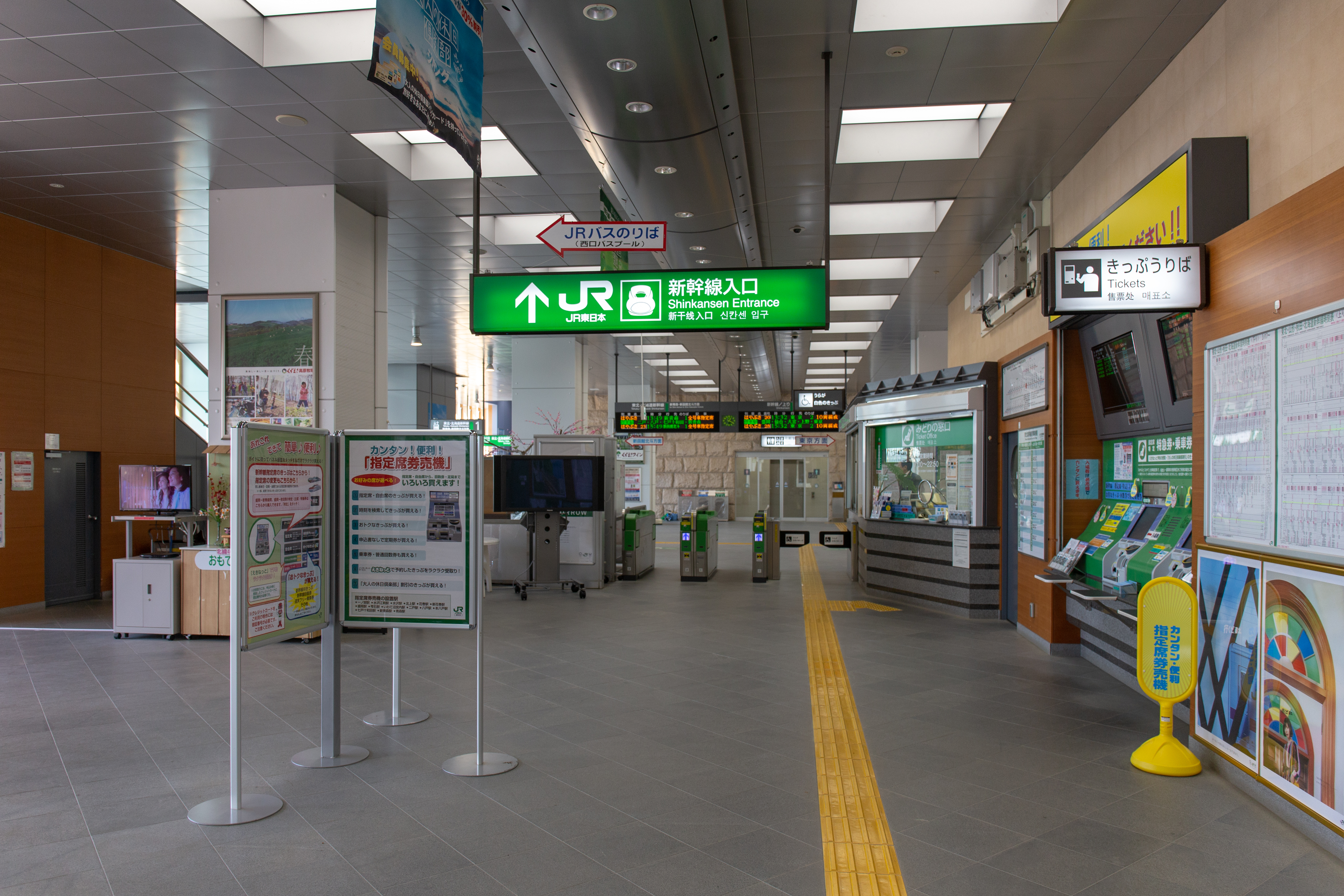 Ticket gates at Iwate-Numakunai Station on the JR East Tohoku Shinkansen in Iwate Town, Iwate Prefecture, Japan